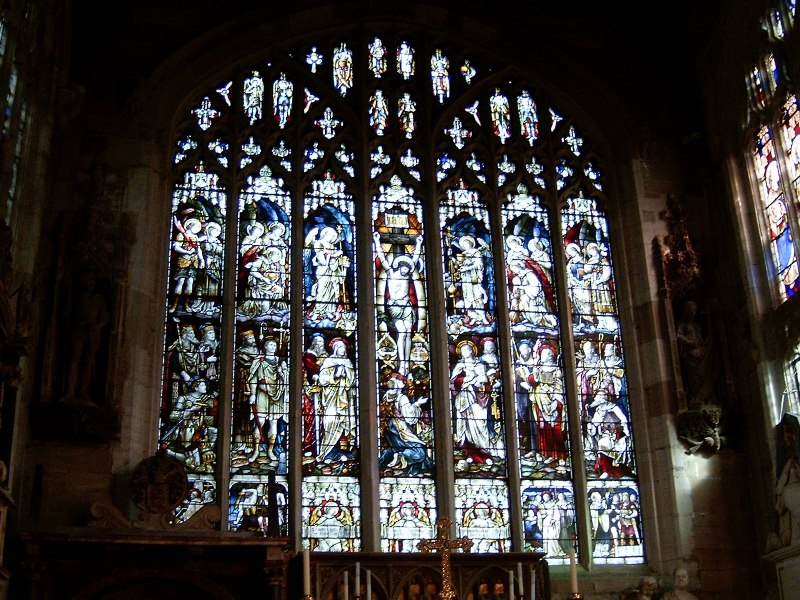 Great window in Holy Trinity parish church, Stratford-upon-Avon, Warwickshire